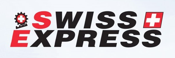 Logo of the SWISS EXPRESS magazine, United Kingdom.